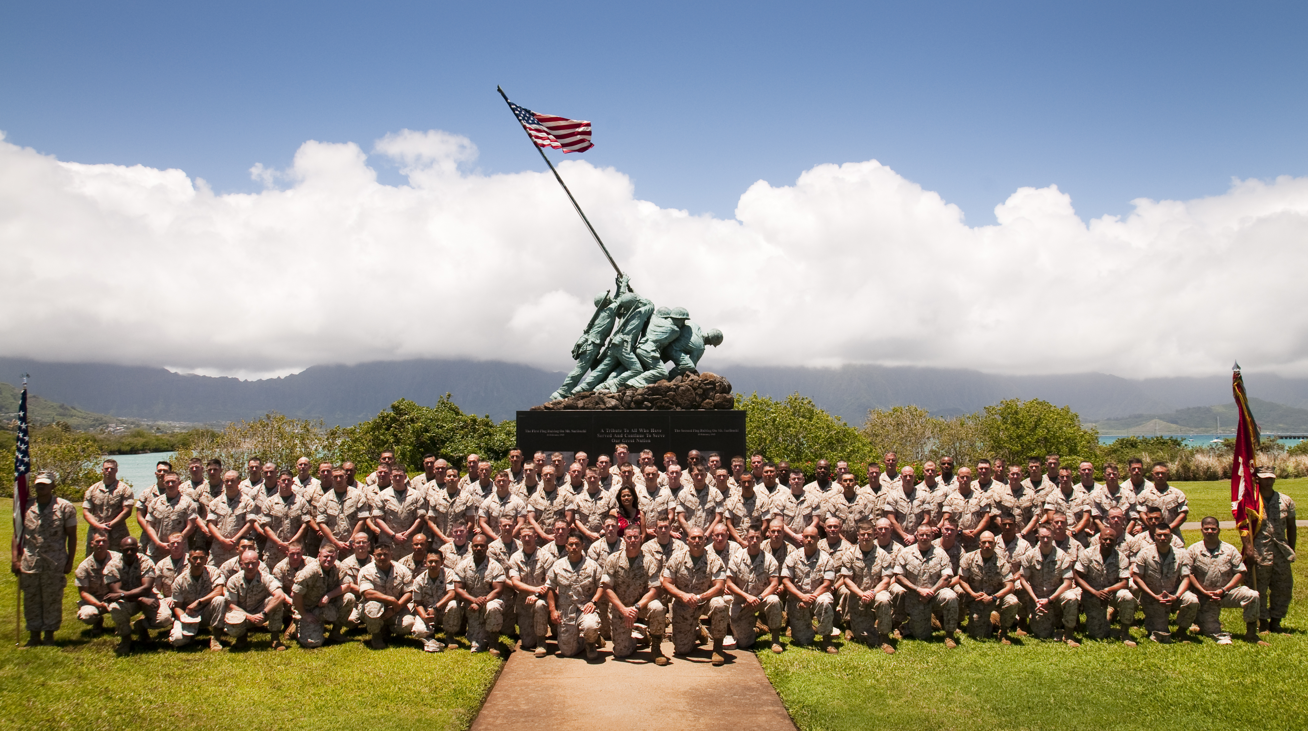 Original Caption: America's Battalion staff noncommissioned officers and officers at Marine Corps Base Hawaii.